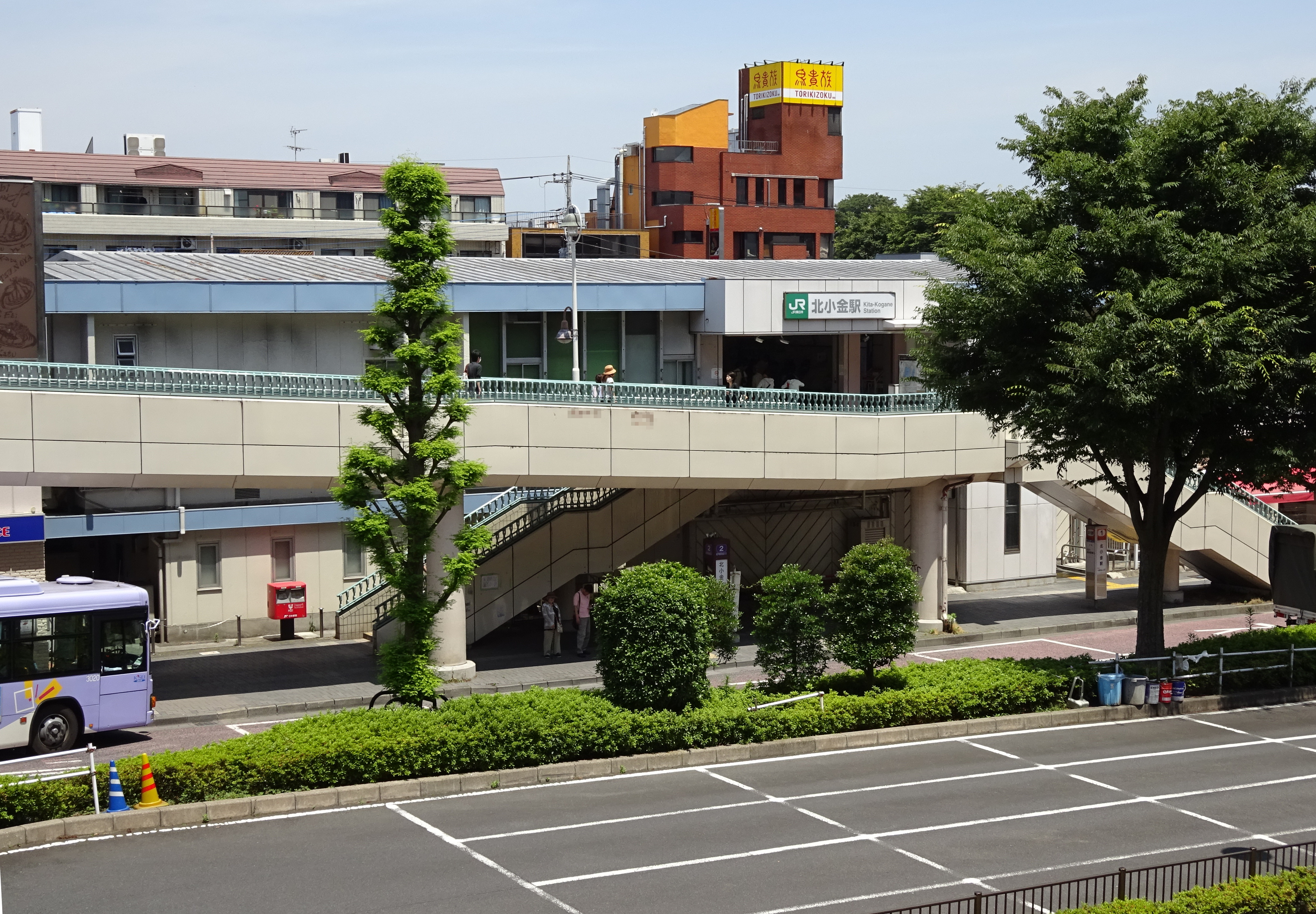 South Entrance of Kita-Kogane Station